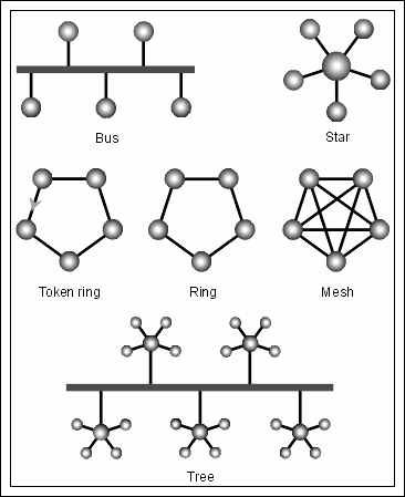 कॉम्प्युटर नेटवर्क टोपॉलॉजी